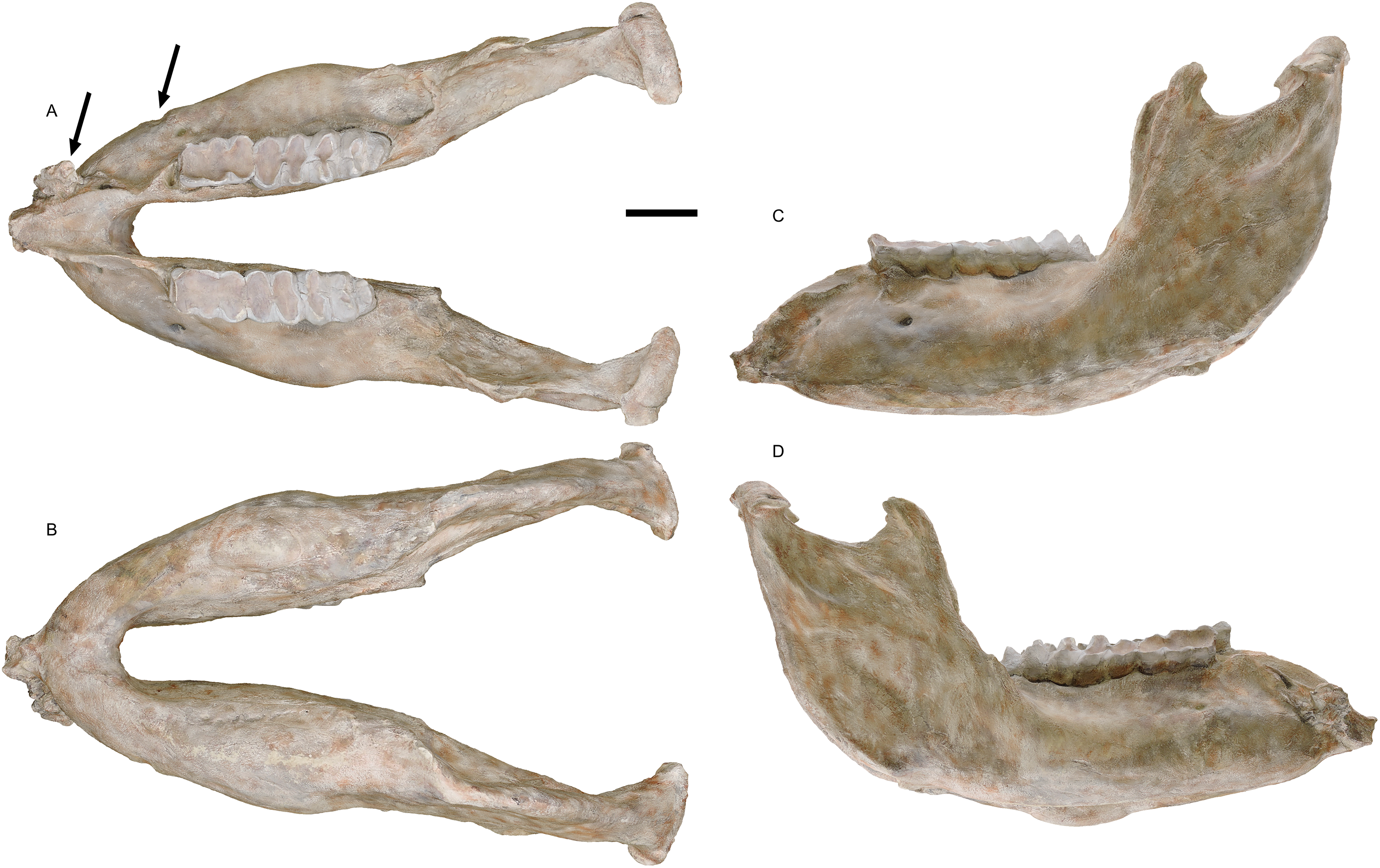 Mammut pacificus, holotype mandible (WSC 18743) in: (A) dorsal, (B) ventral, (C) left lateral, and (D) right lateral. Teeth include left and right m2–m3; Arrows indicate pathologies; Diamond Valley Lake Local Fauna, California, Upper Pleistocene; Scale 10 cm